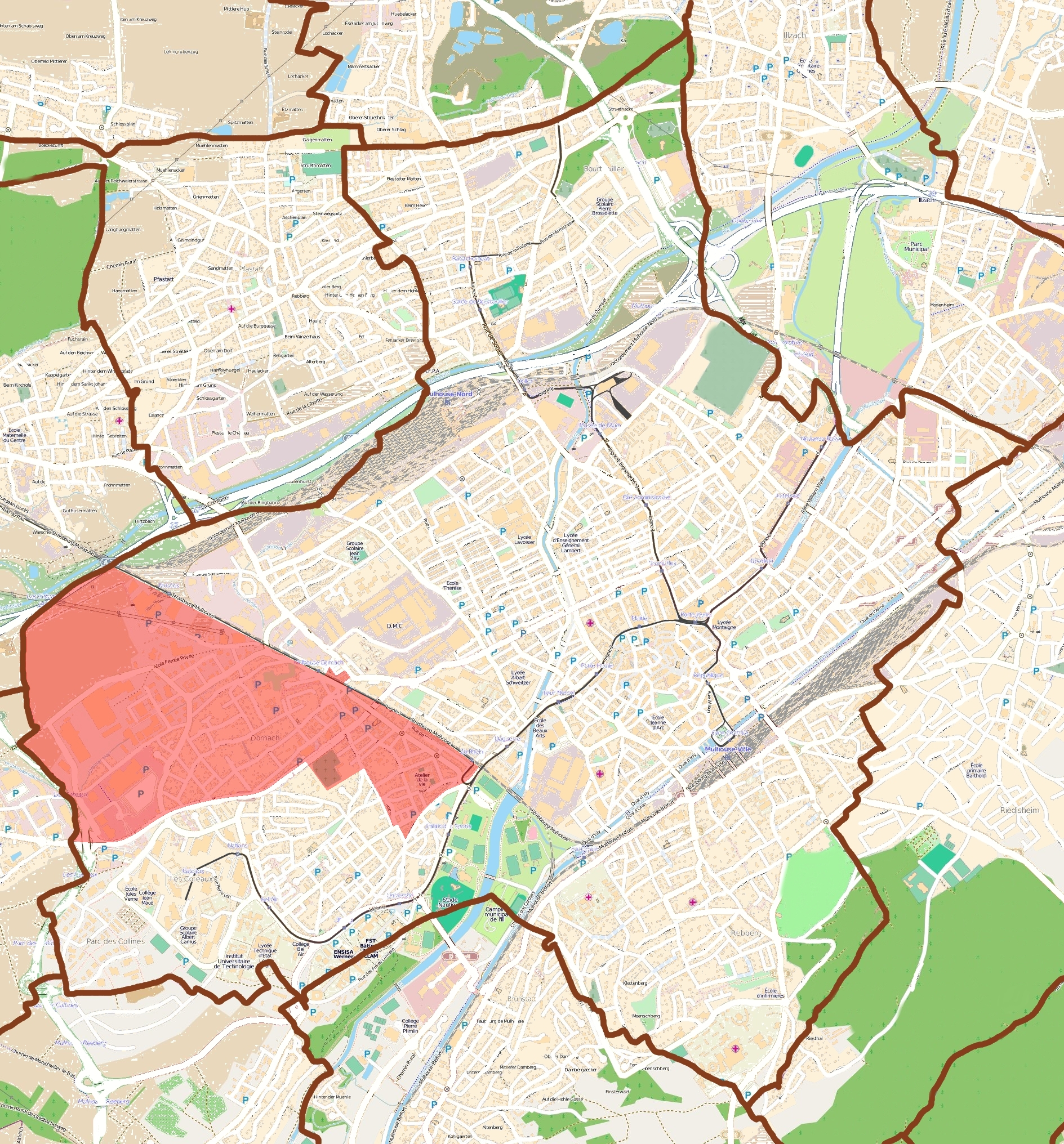 Localization of the Dornach neighbourhood in Mulhouse. This map may be incomplete, and may contain errors. Don't rely solely on it for navigation.